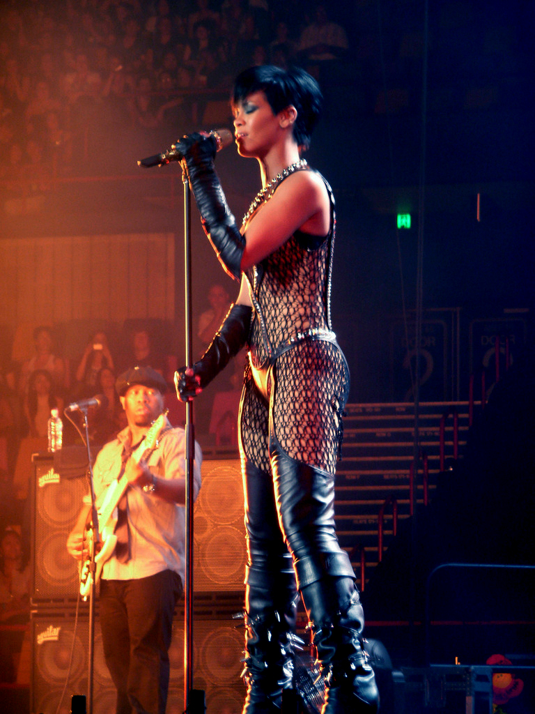 Rihanna and Chris Brown concert. Brisbane Entertainment Centre. November 1st 2008